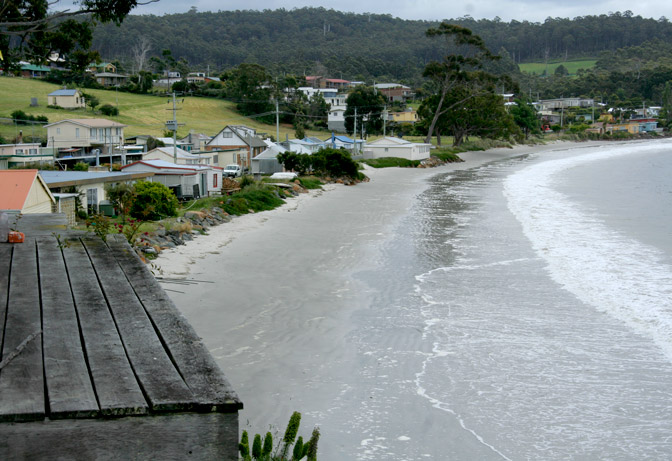 The small coastal town of Southport in far south Tasmania